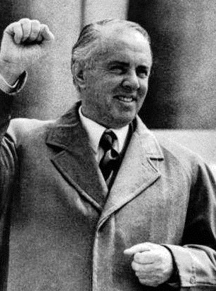 Enver Hoxha at the top of his power